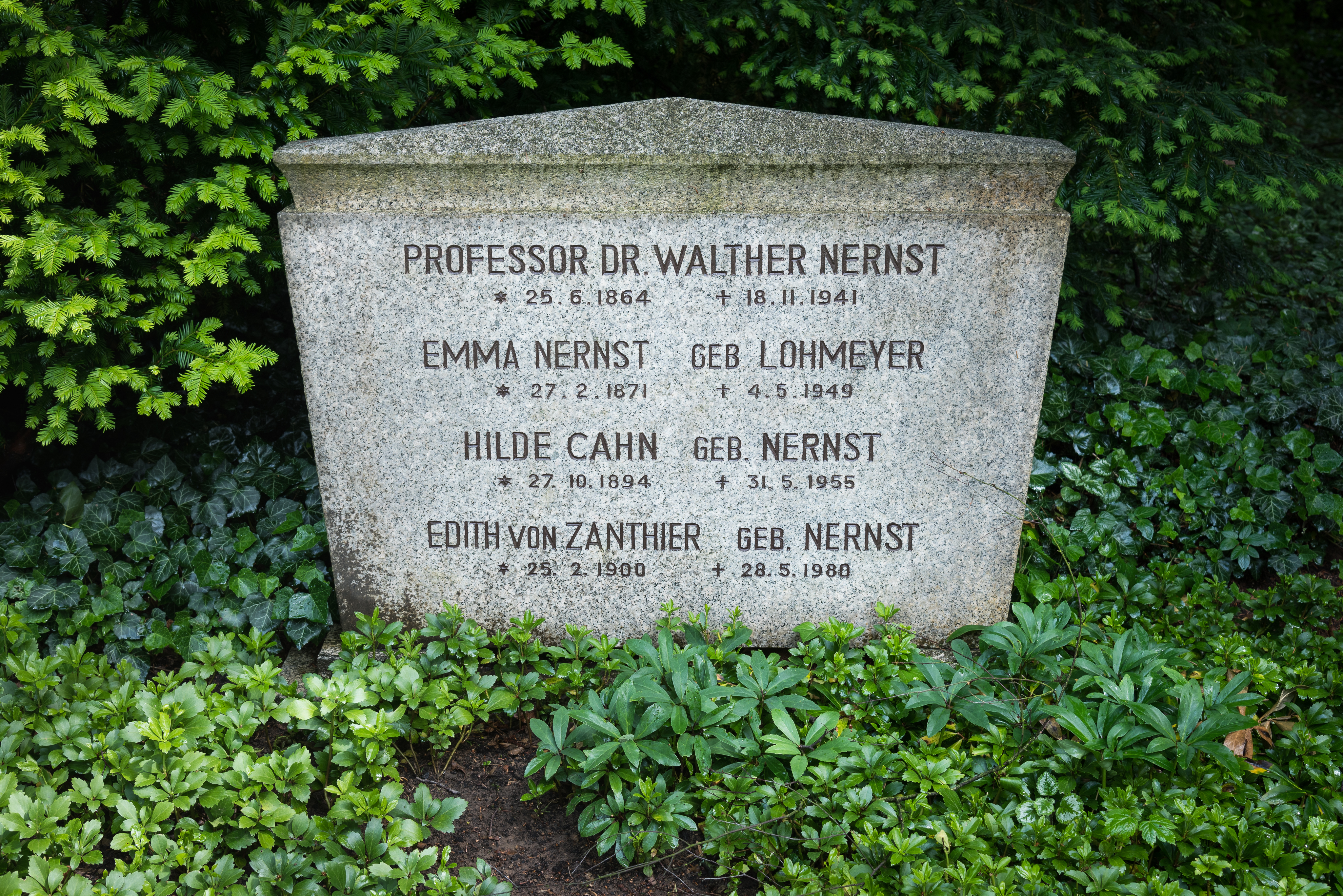 Grave and tombstone of Walther Nernst at the historic city cemetery (Stadtfriedhof) in Göttingen, Germany.